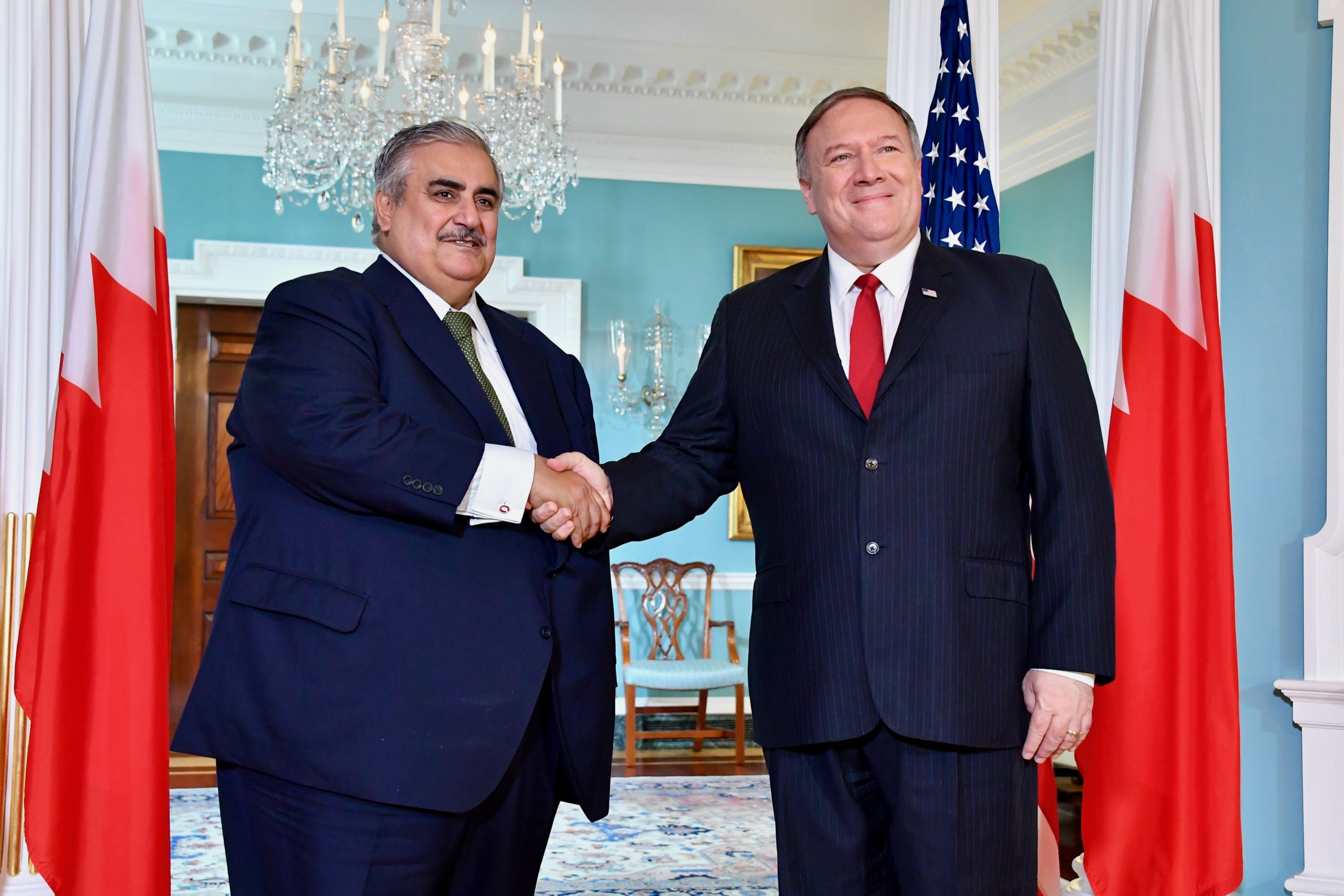 U.S. Secretary of State Michael R. Pompeo meets with Bahraini Foreign Minister Khalid bin Ahmed Al Khalifa, at the U.S. Department of State in Washington, D.C., on July 17, 2019. [State Department photo by Michael Gross/ Public Domain]